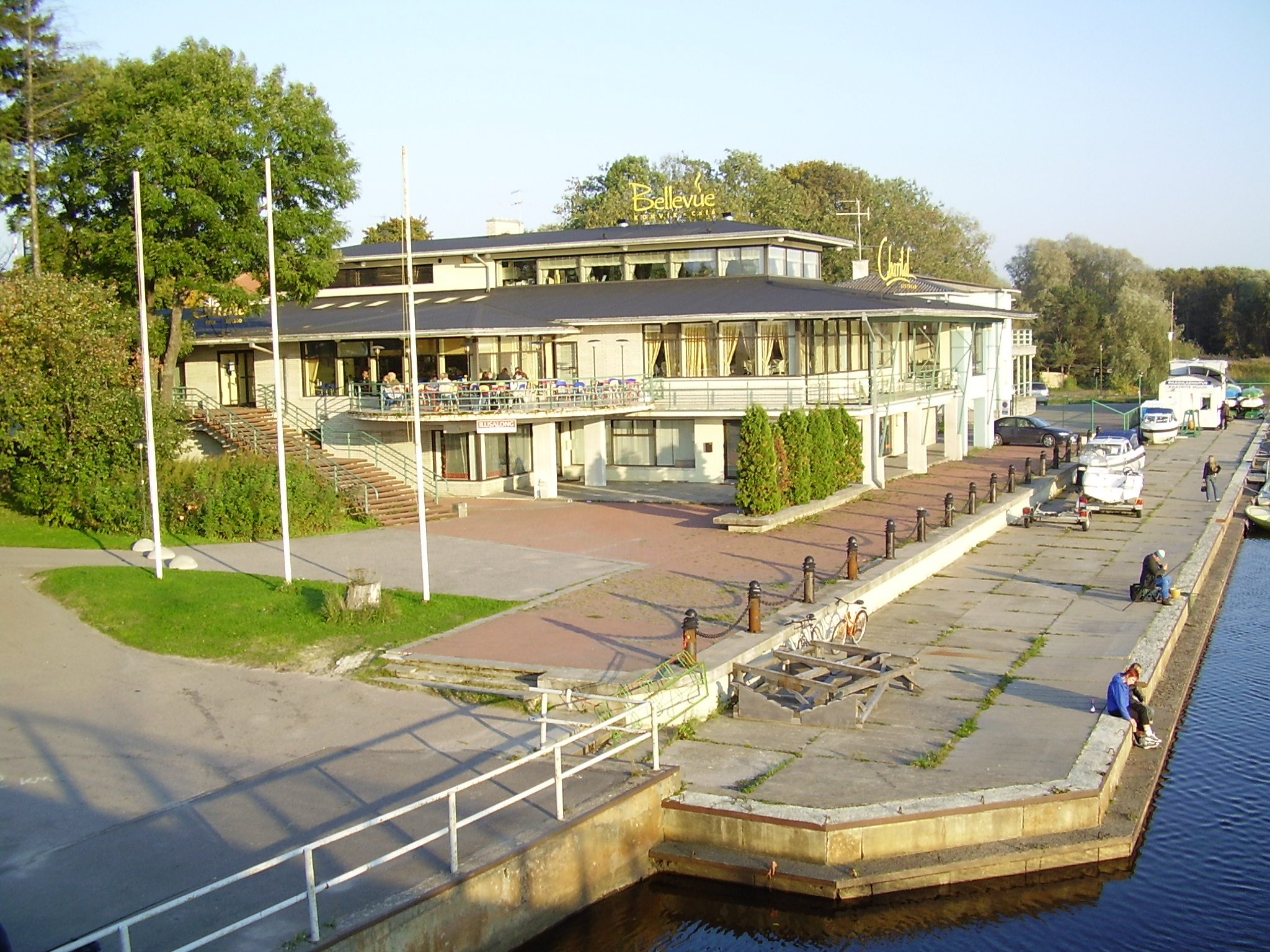 Restaurant Bellevue